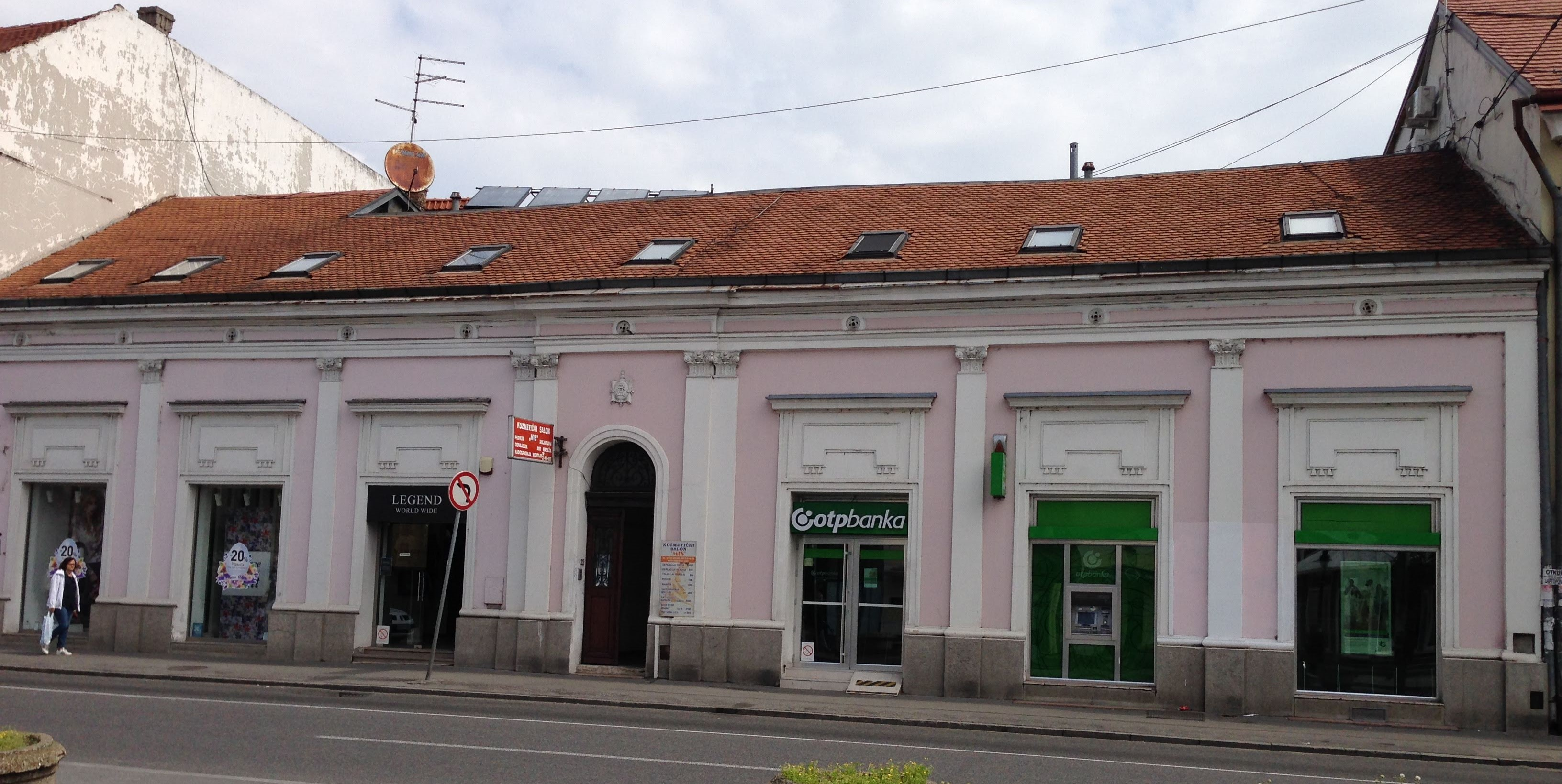 Abijan's house in Zemun.